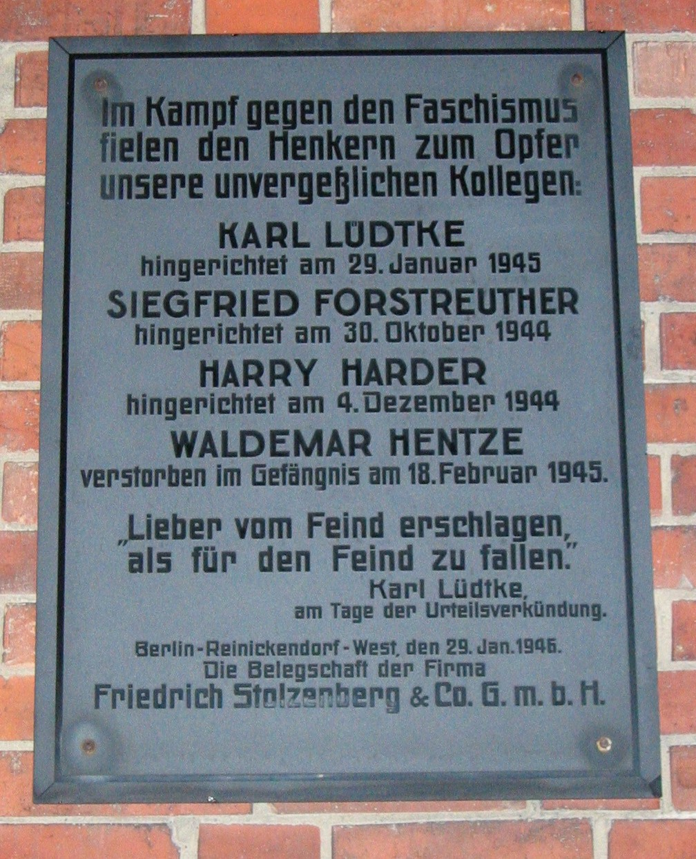 Memorial plaque for the murdered members of the antifascist resistance, Karl Lüdtke, Siegfried Forstreuter, Harry Harder and Waldemar Henze in the Saalmannstraße 9 in Berlin-Reinickendorf